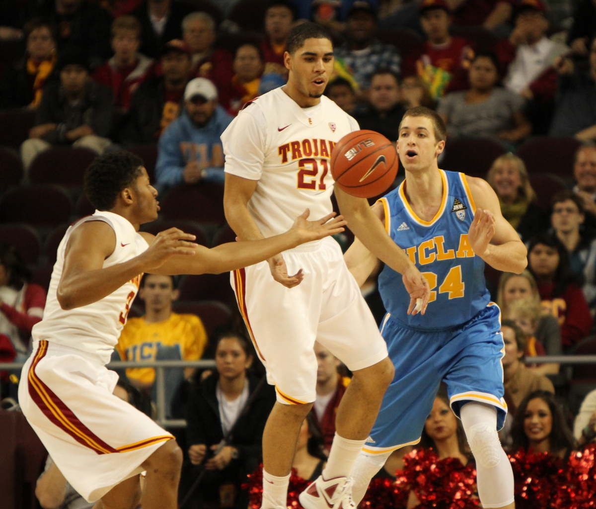 USC vs. UCLA Men's Basketball at Galen Center on Jan. 15, 2012. (Photos taken by James Santelli/Neon Tommy)